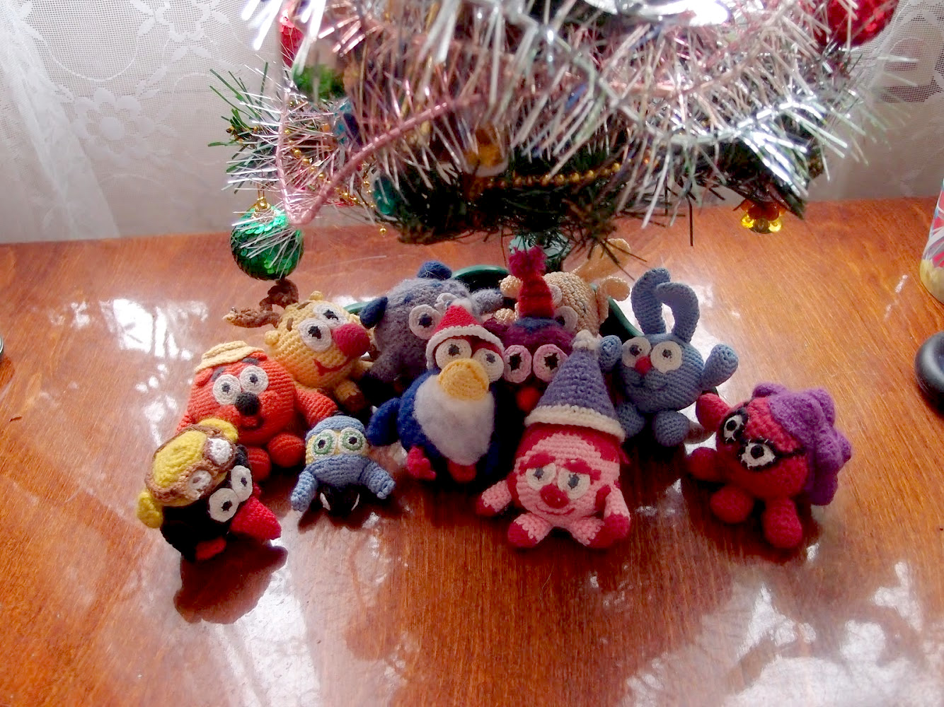 Crochet. KikoRiki.